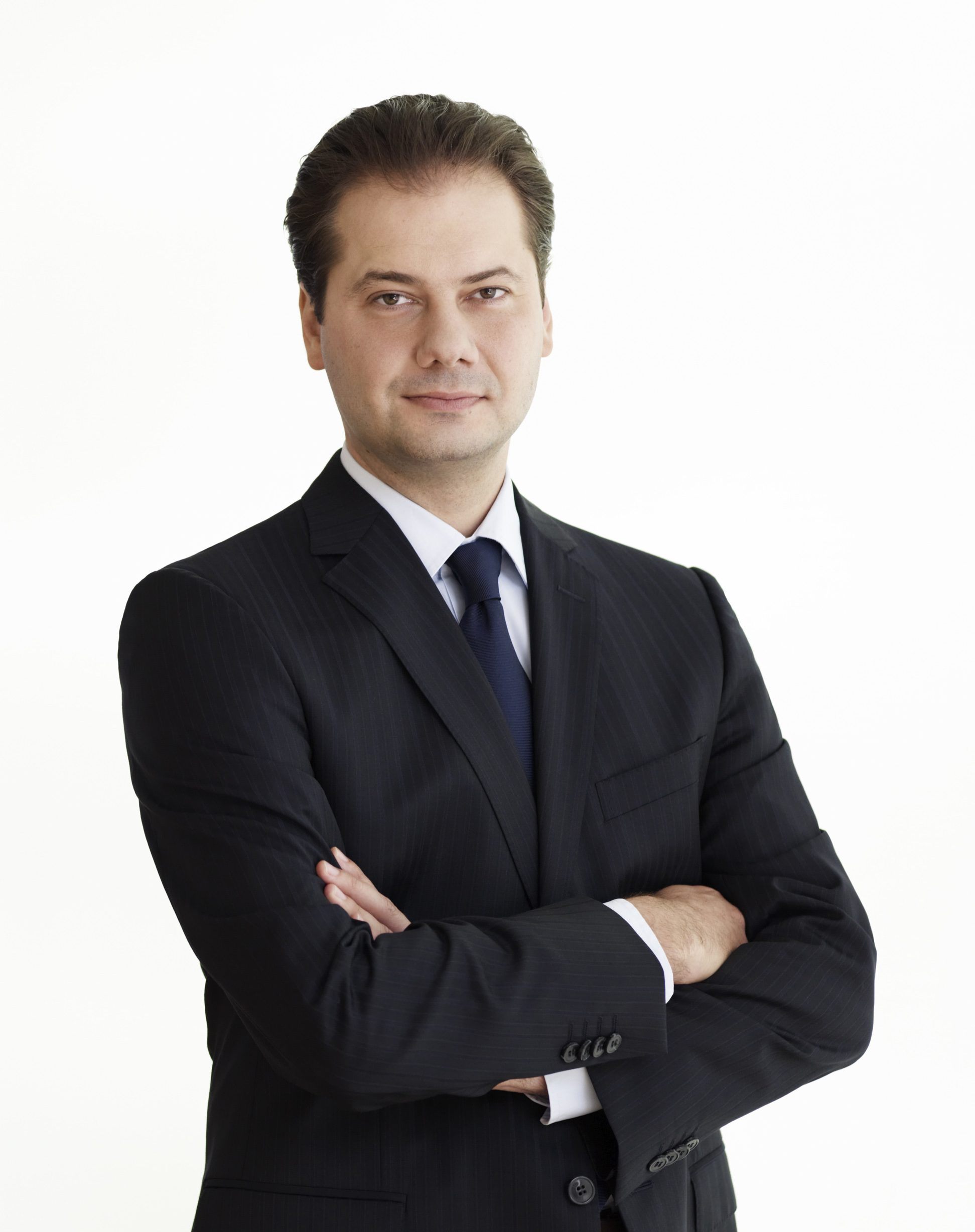 Max Hollein, Kurator und Museumsdirektor